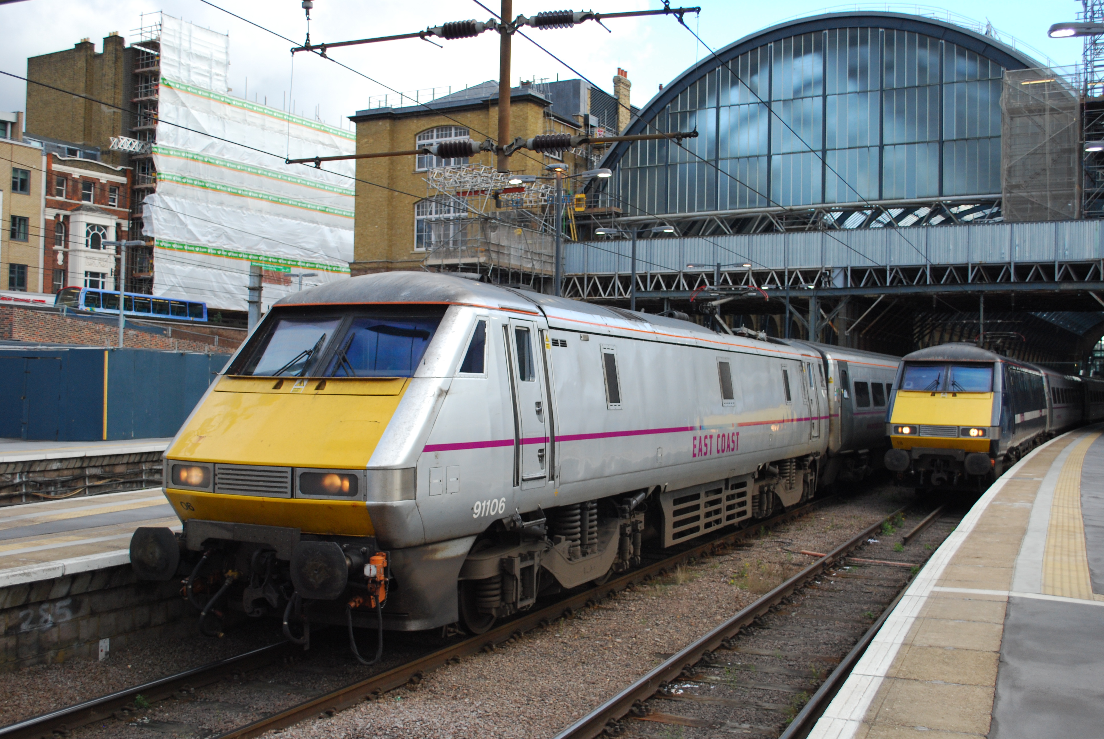 BR/GEC Class 91 6,090 hp Bo-Bo No.91 106 (ex-"East Lothain") of East Coast in their livery at Kings Cross, 09/12.